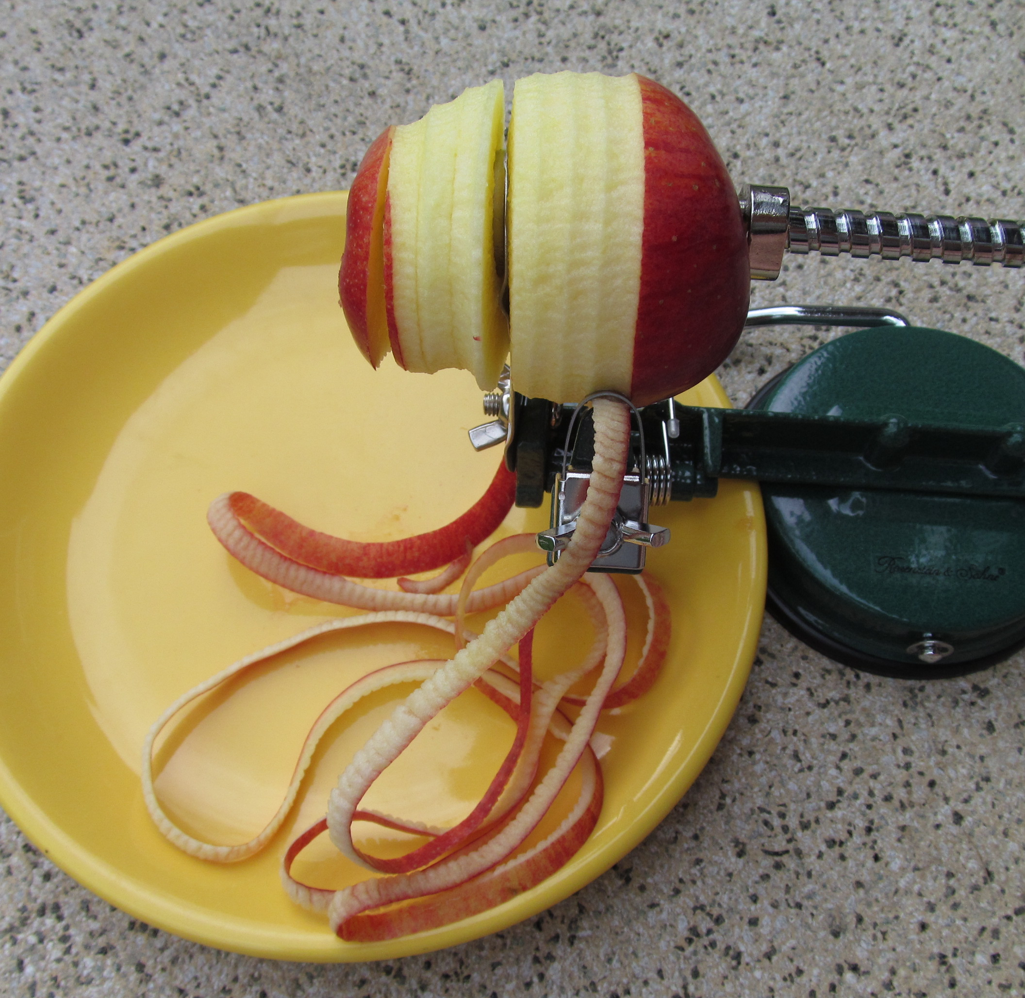 Apple Peeler with Apple